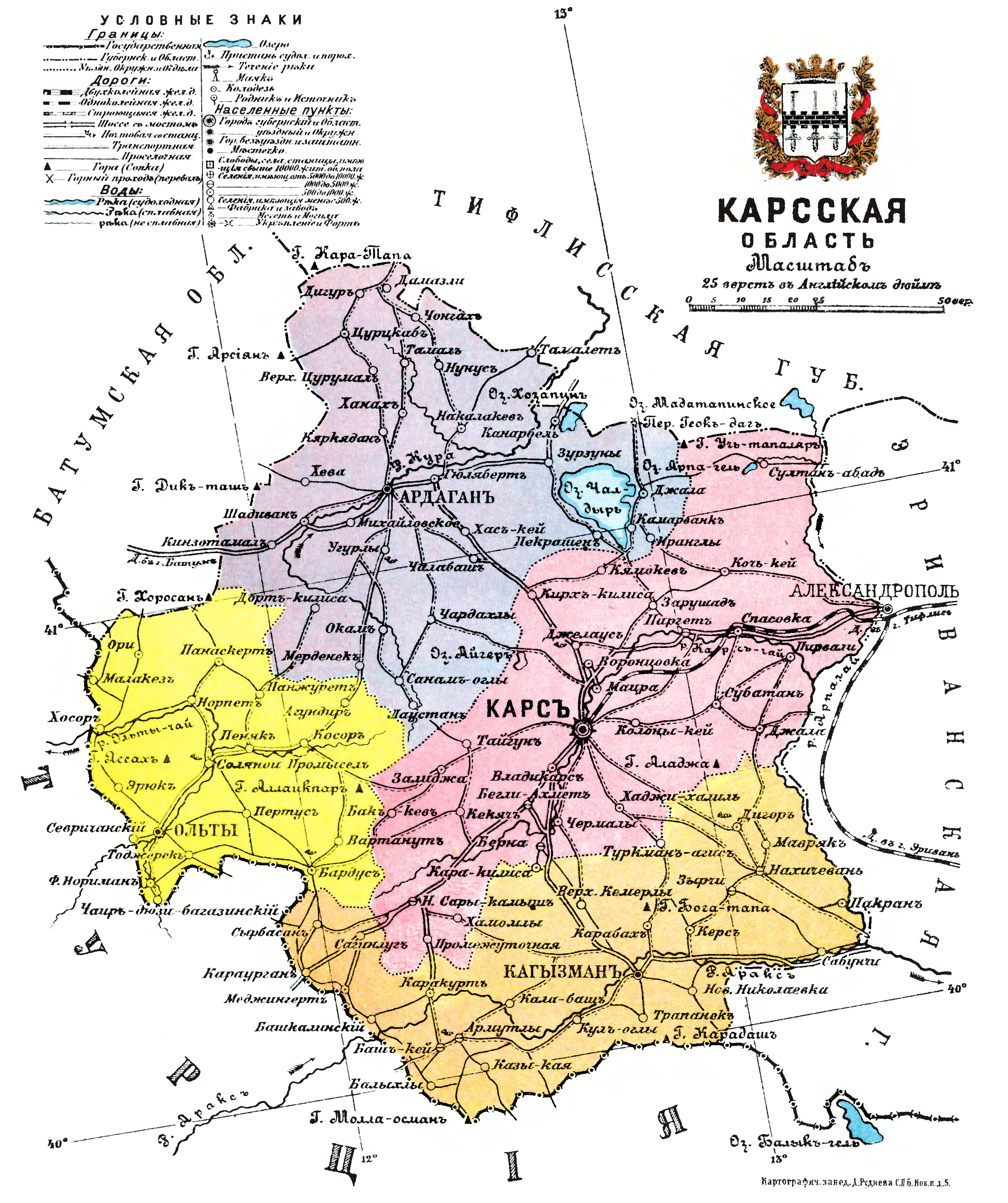 Administrative map of Kars Oblast: showing the main settlements.